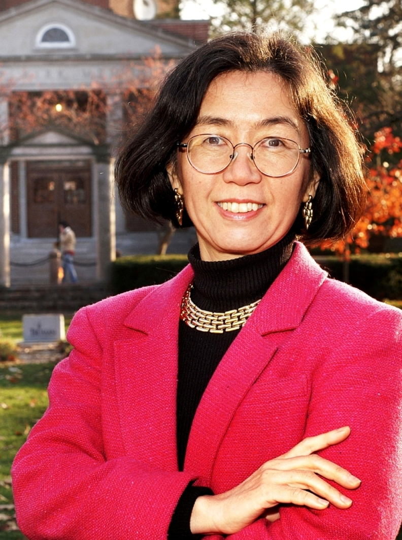 Photograph of Dr. Huping Ling at Truman University